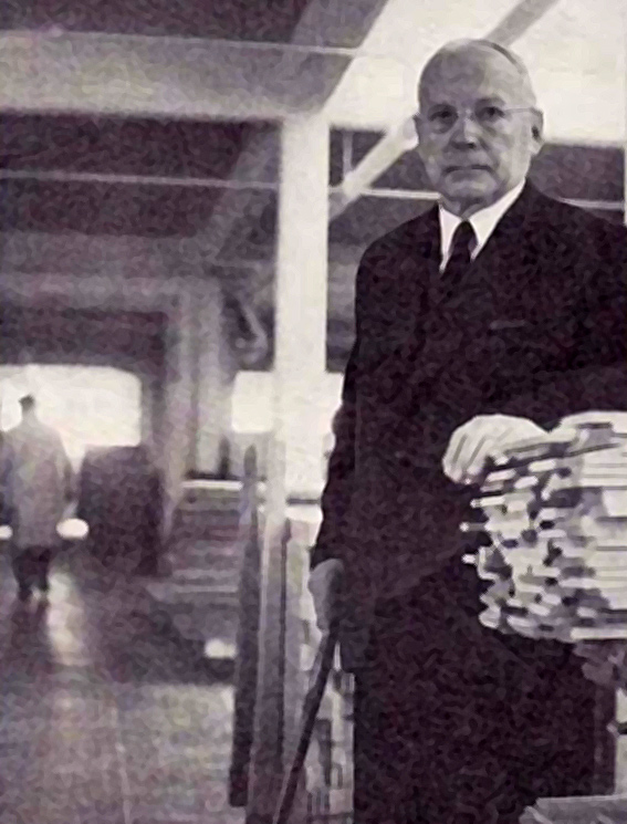 Aukusti Asko-Avonius (1887–1965), Finnish businessman, founder of the furniture and appliance company Asko.